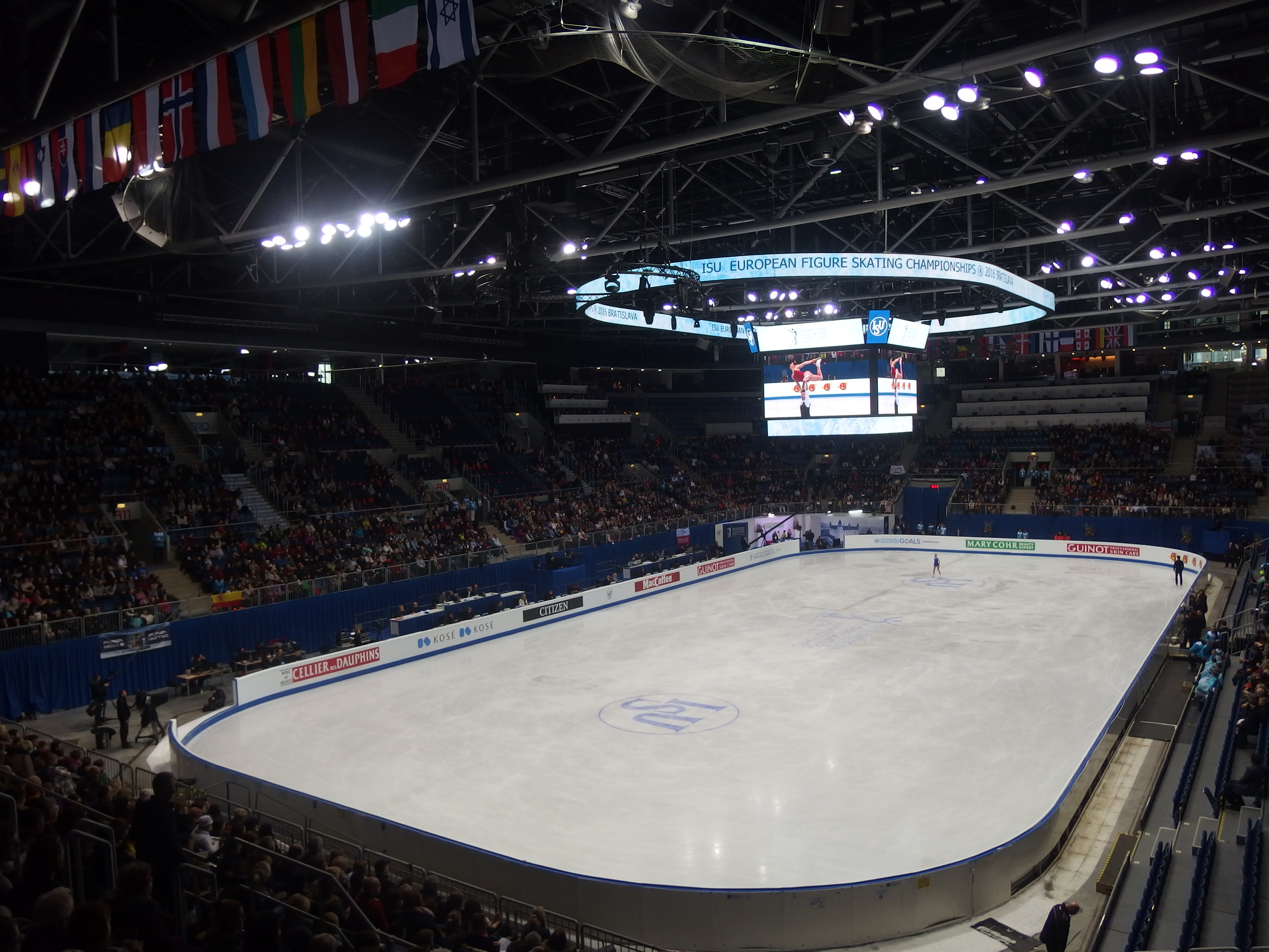 Bratislava, Ondrej Nepela Arena. 2016 European Figure Skating Championships.